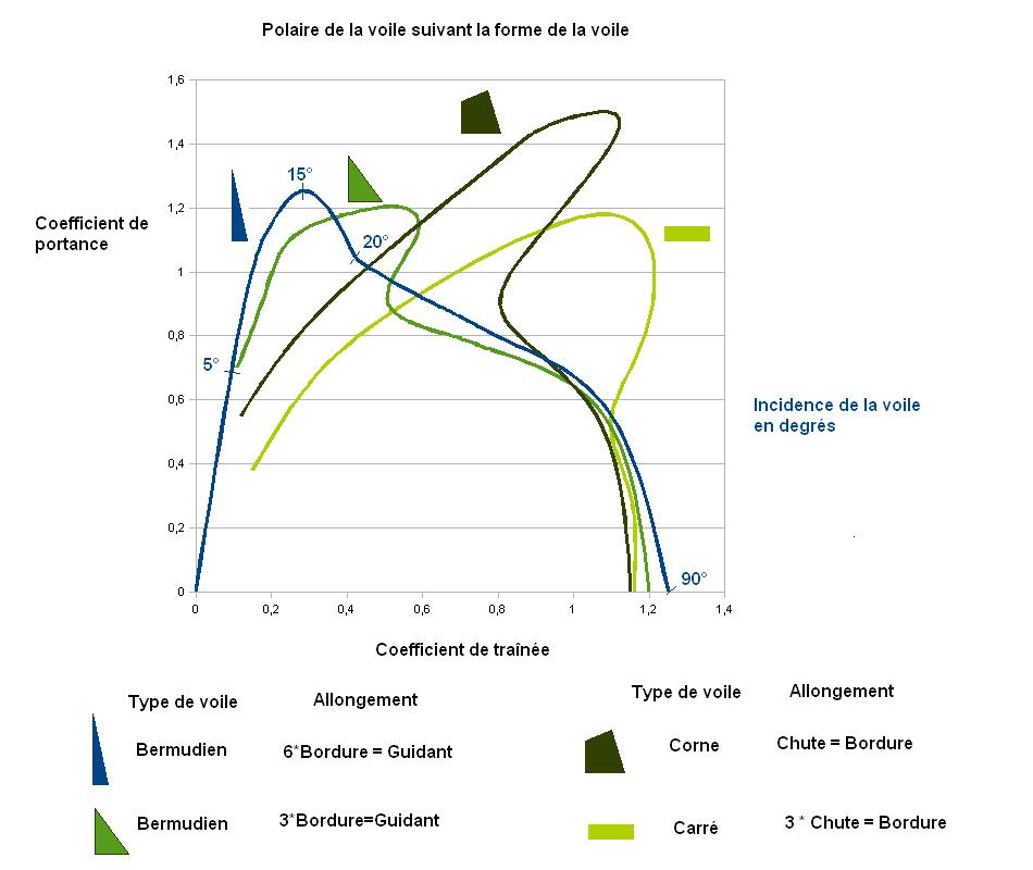 this picture describe the evolution of drag and lift of one sail